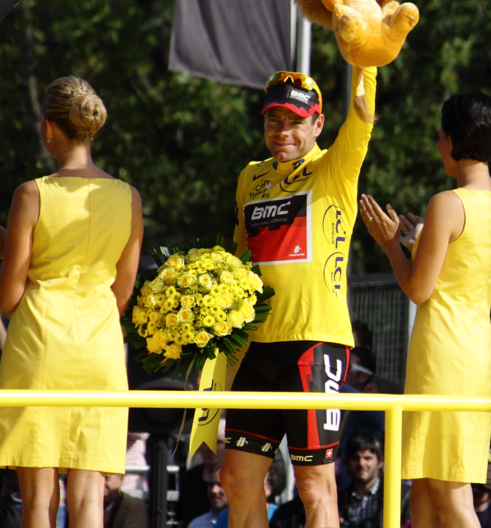 Cadel Lee Evans (/kəˈdɛl/,[2] born 14 February 1977) is an Australian professional racing cyclist and winner of the 2011 Tour de France. In early career, Evans was a champion mountain biker, first riding for the Diamondback MTB team, then for the Volvo-Cannondale MTB team, winning the World Cup in 1998 and 1999 and placing seventh in the men's cross-country mountain bike race at the 2000 Summer Olympics in Sydney. Evans turning to full-time road cycling in 2001, and gradually progressed through ranks. He ended up second in 2007 and 2008 Tours de France. He became the first Australian to win the UCI ProTour (2007) and the UCI Road World Championships in 2009. Finally, he won the Tour de France in 2011, riding for BMC Racing Team, after two Tours riddled with bad luck.[3] At 34, he was among five oldest winners in the race's history.